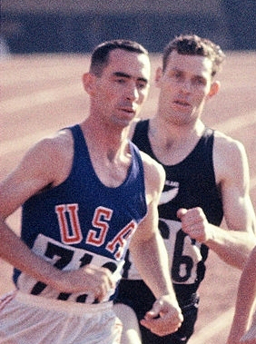 Athletes compete in the Men's 800m Semi-final at the National Stadium during the Tokyo Olympic on October 15, 1964 in Tokyo, Japan. Left-right: Jerry Siebert, Peter Snell